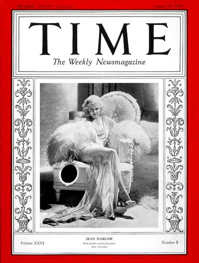 Time magazine, Volume 26 Issue 8, August 19, 1935. Front cover is a photograph of Jean Harlow. Time failed to renew the copyrights of many early issues; see wikisource:Time (magazine). Photograph is a promotional still for Dinner at Eight (1933). An alternate pose from the same session appears here, identifying the photographer and subject.